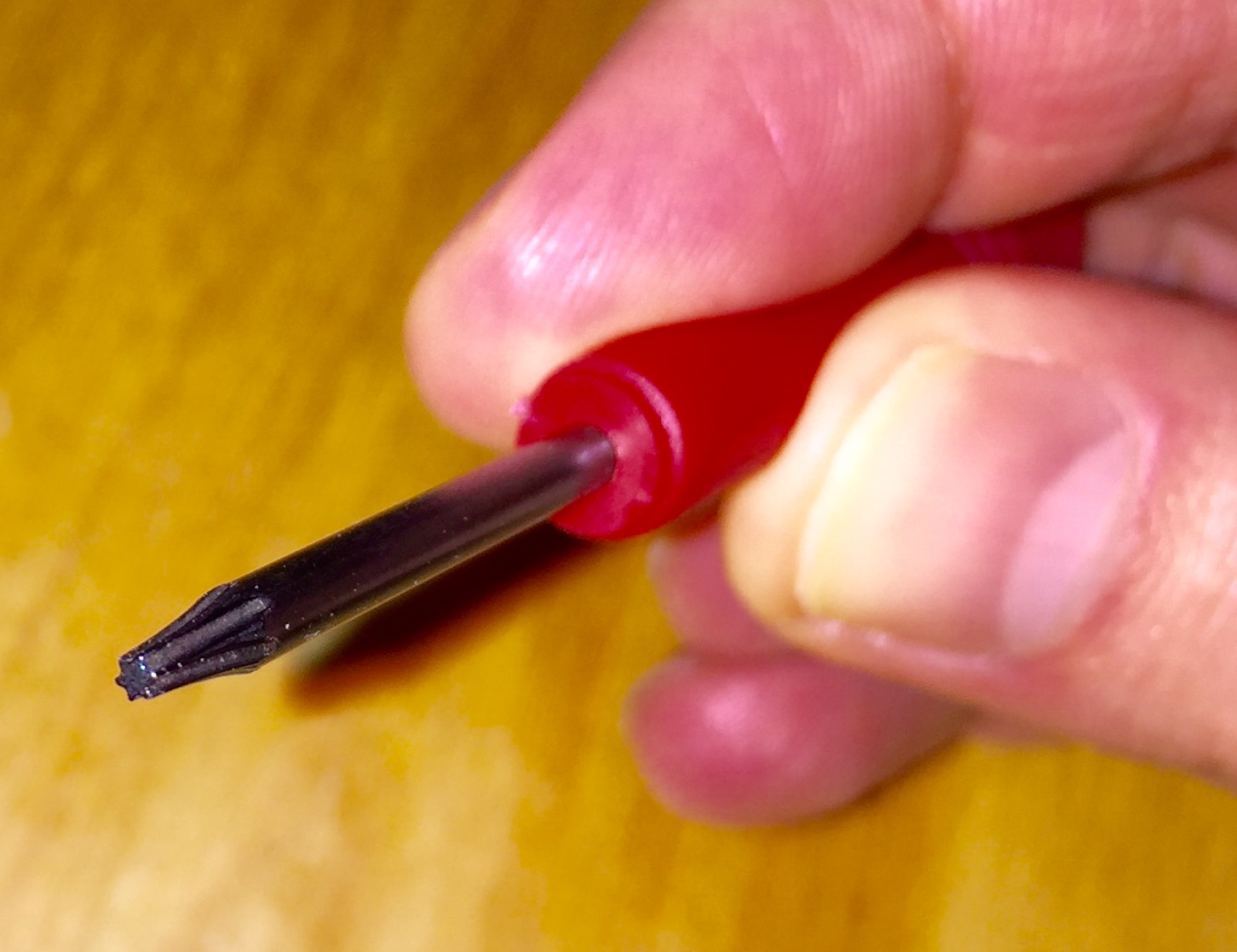 T6 Torx screw driver